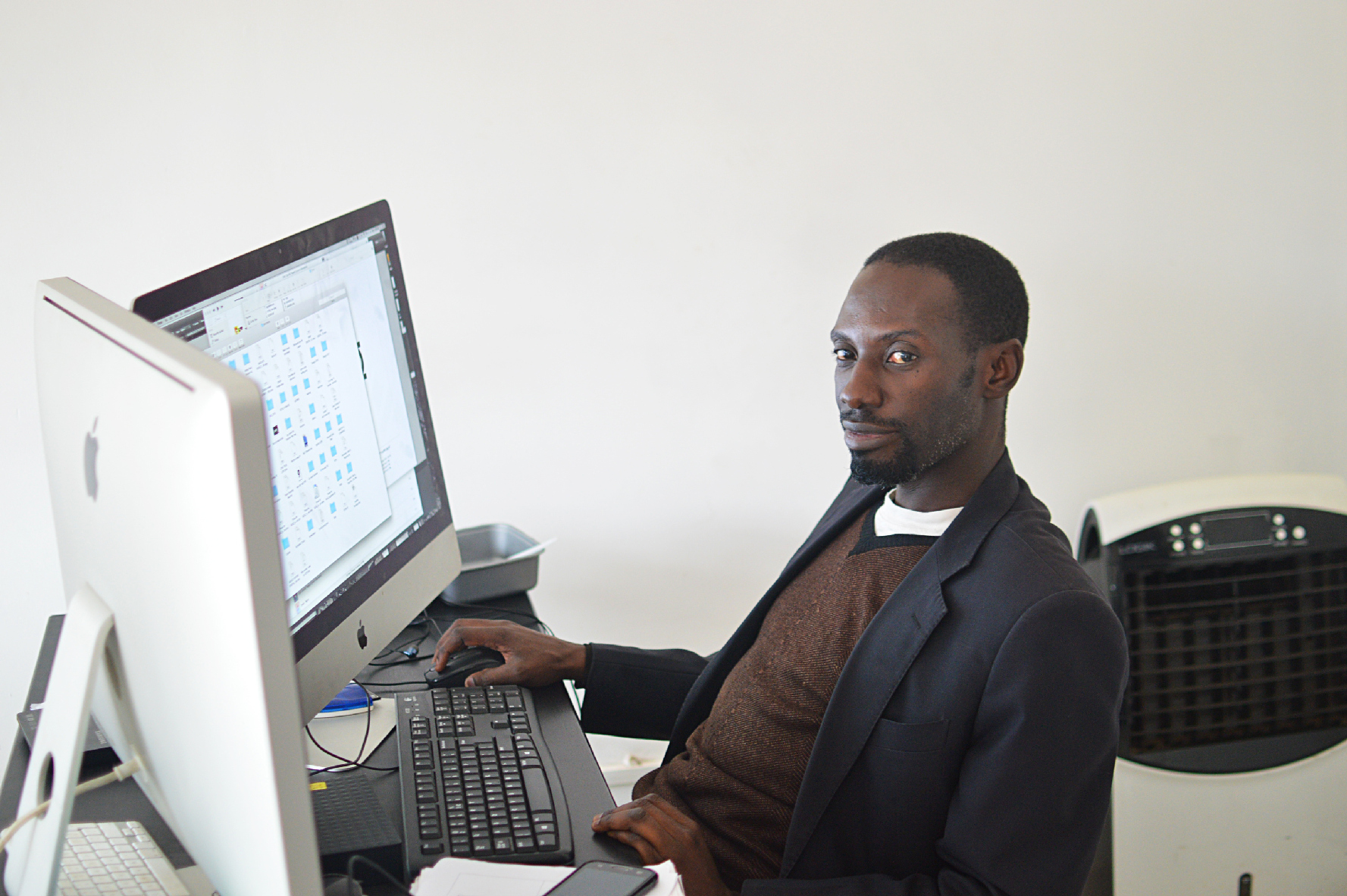 A photographer and graphics designer at his desk. This is an image of "African people at work" from Zambia